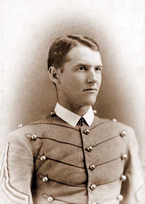 1879 United States Military Academy at West Point photograph - James R Lockett